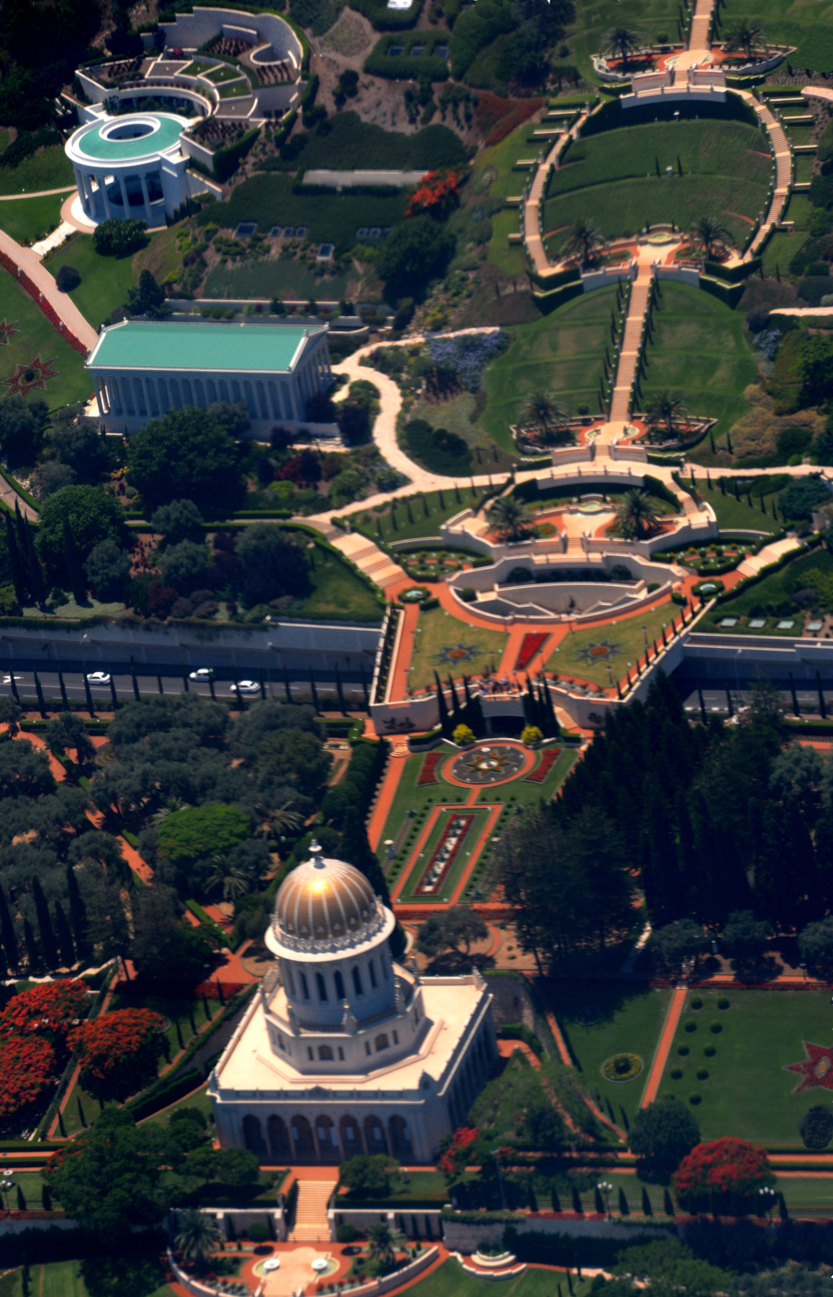 Shrine of the Bab and Bahai Terraces from the air